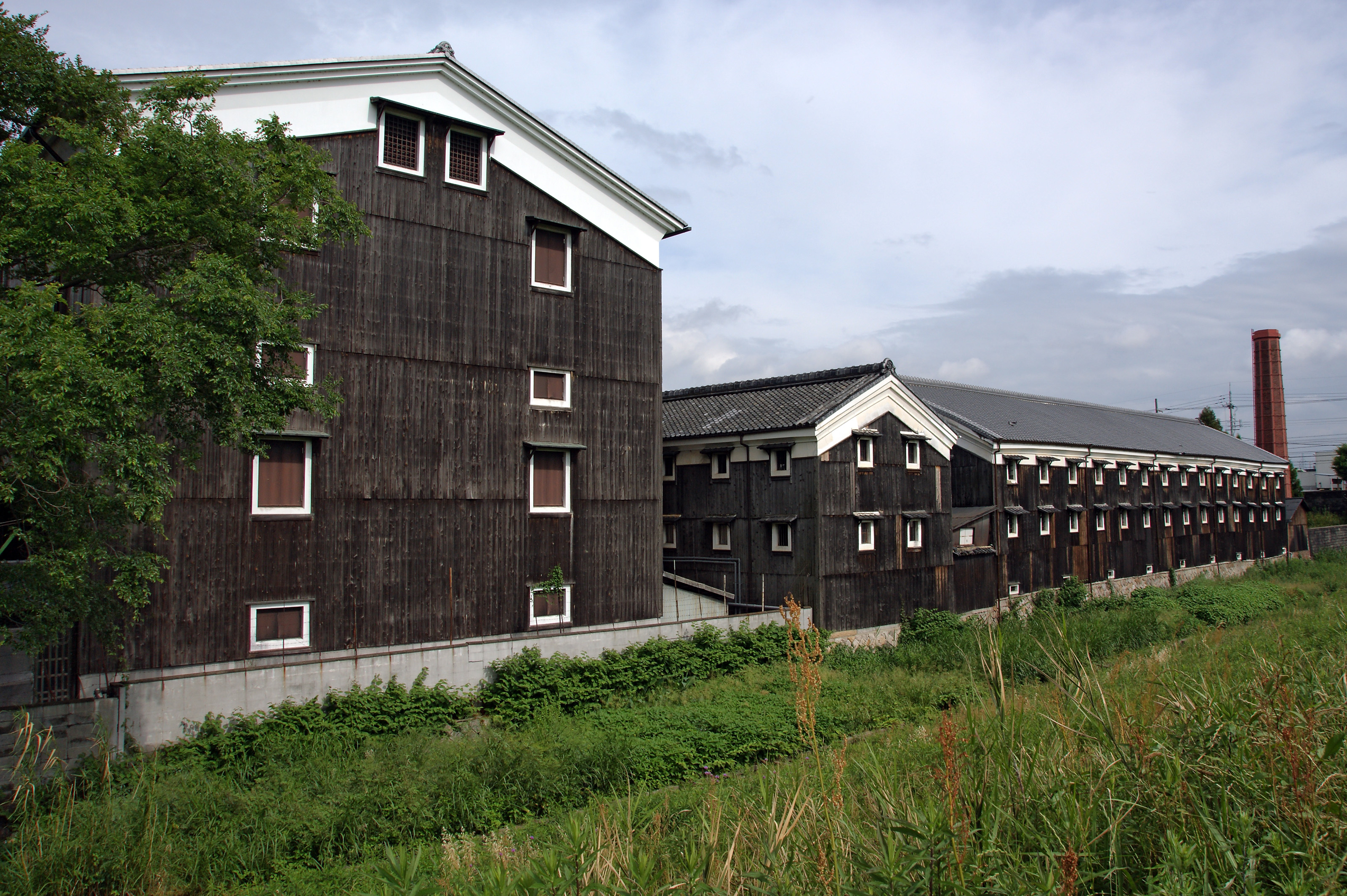 Matsumoto Sake Brewing in Fushimi, Kyoto, Kyoto prefecture, Japan